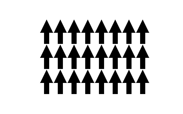 This is a diagram of the magnetic moments within a Ferromagnetic Materials. The magnetic moments are aligned and of the same magnitude